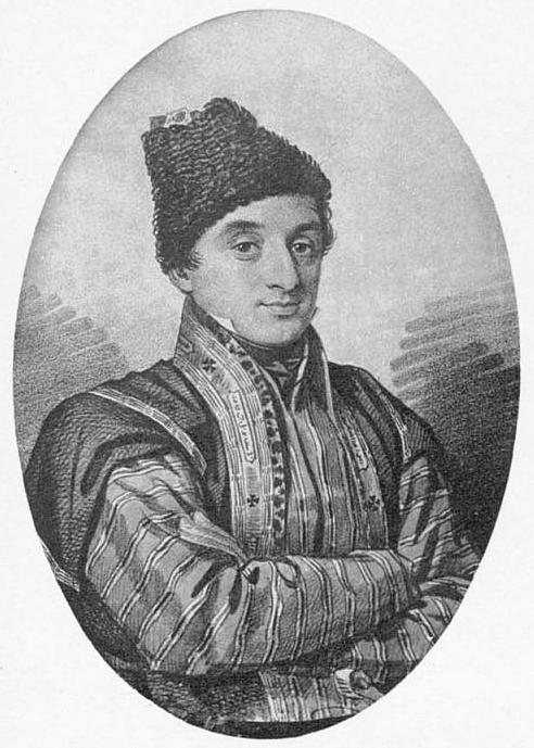 Nobility from Georgia. Illustration from Letopis' Gruzii, edited by B. Esadze, 1913.